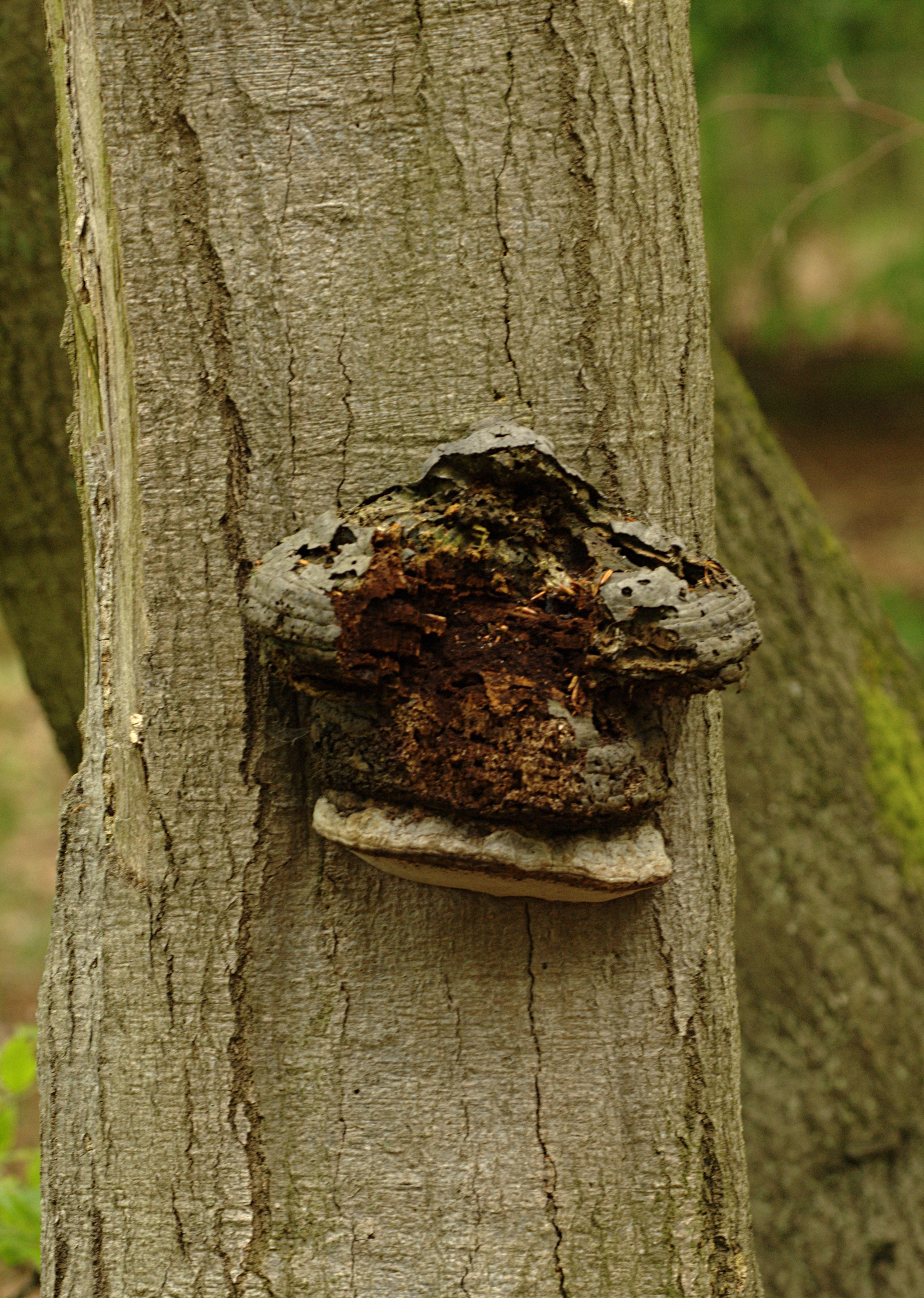 Fomes fomentarius inhabitated with Bolitophagus reticulatus